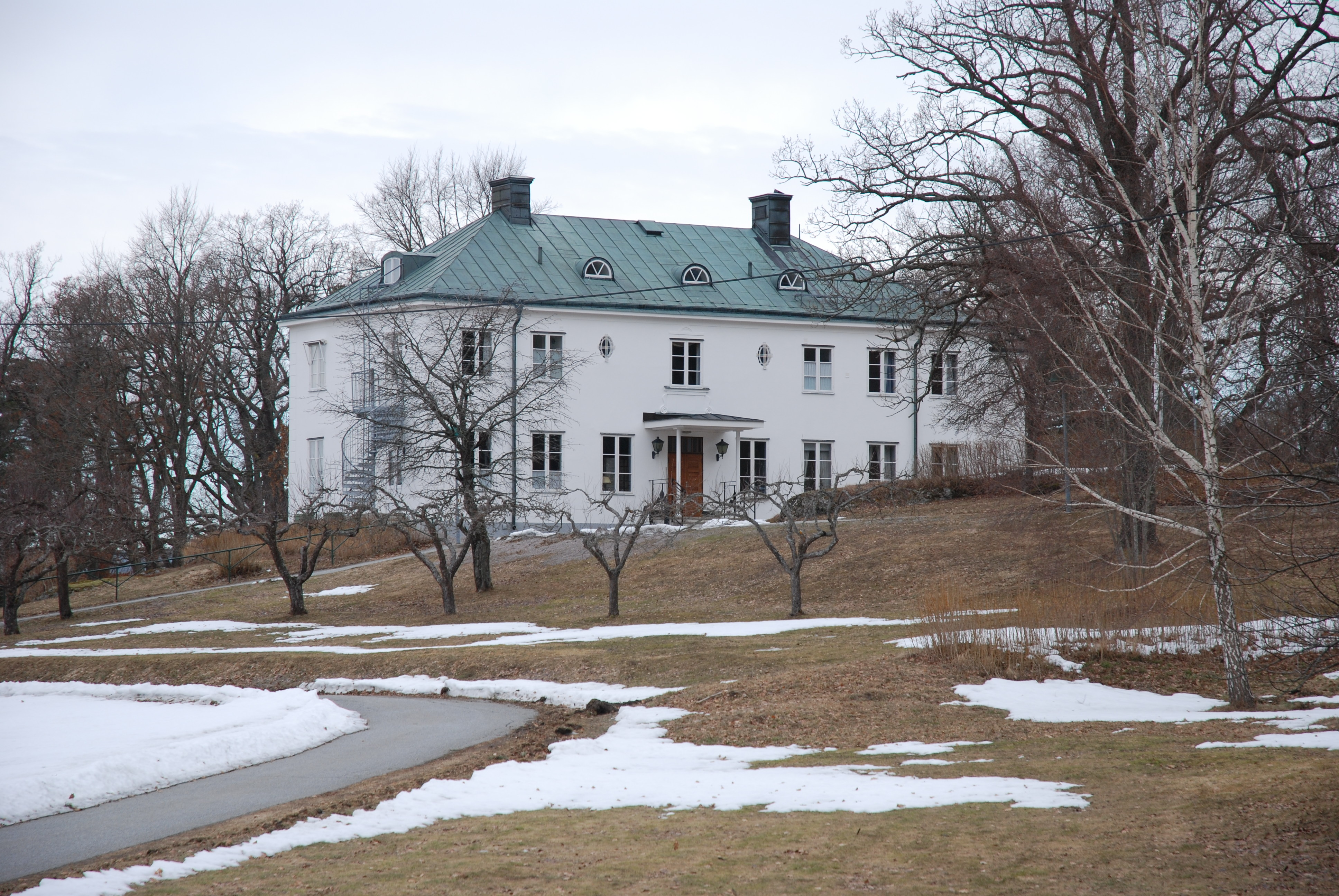 Sånga Säby Manor, Ekerö, Sweden